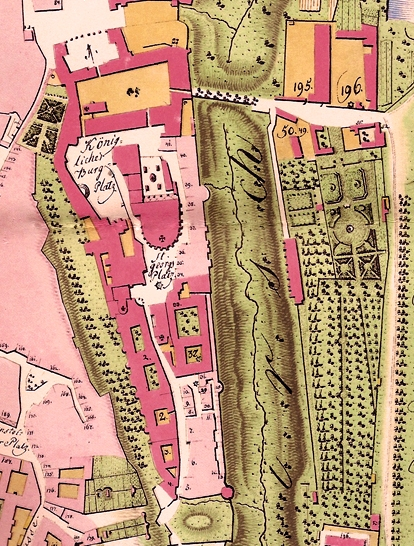 map of Prague Castle from 1791.